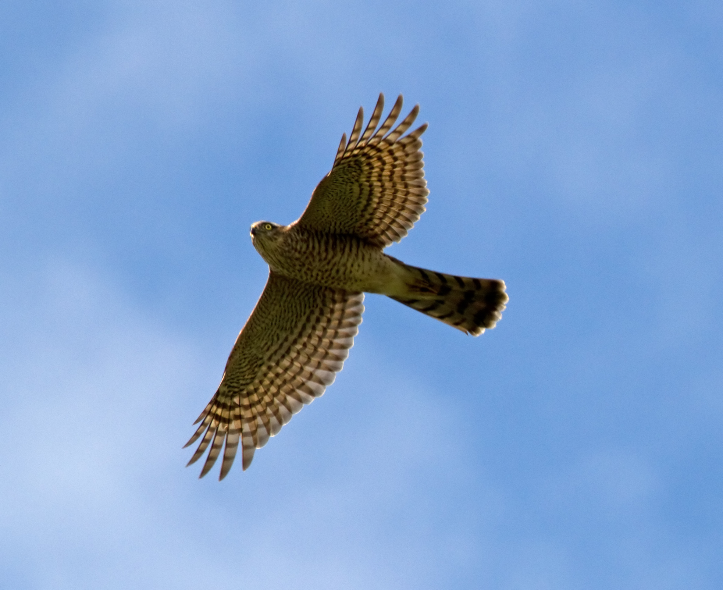 Sparrowhawk 4a